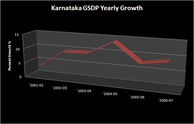 I made it myself